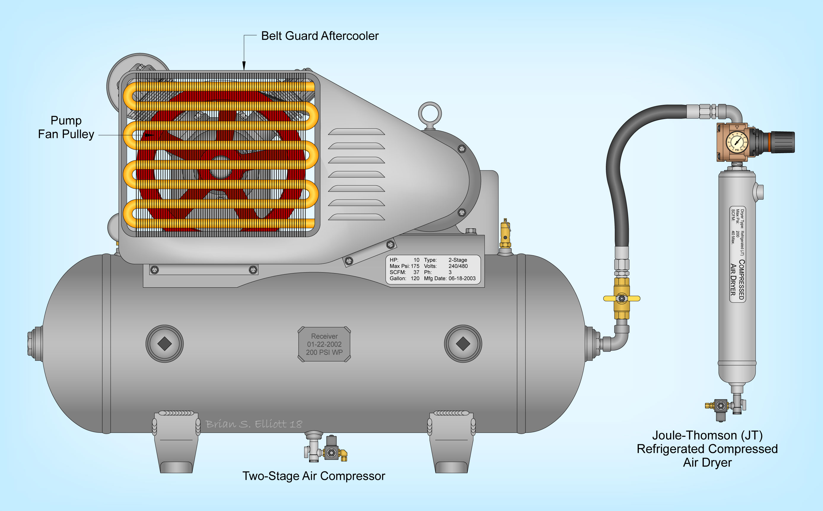 Aftercooler mounted within a belt guard on a two-stage air compressor.